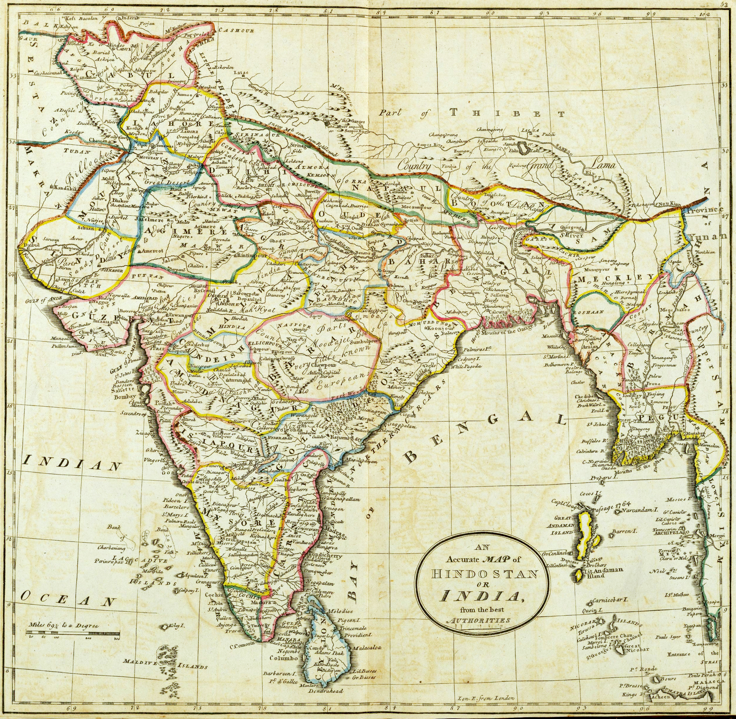 Map of Hindostan or India (1814) by Mathew Carey from the David Rumsey Collection of Historic Maps